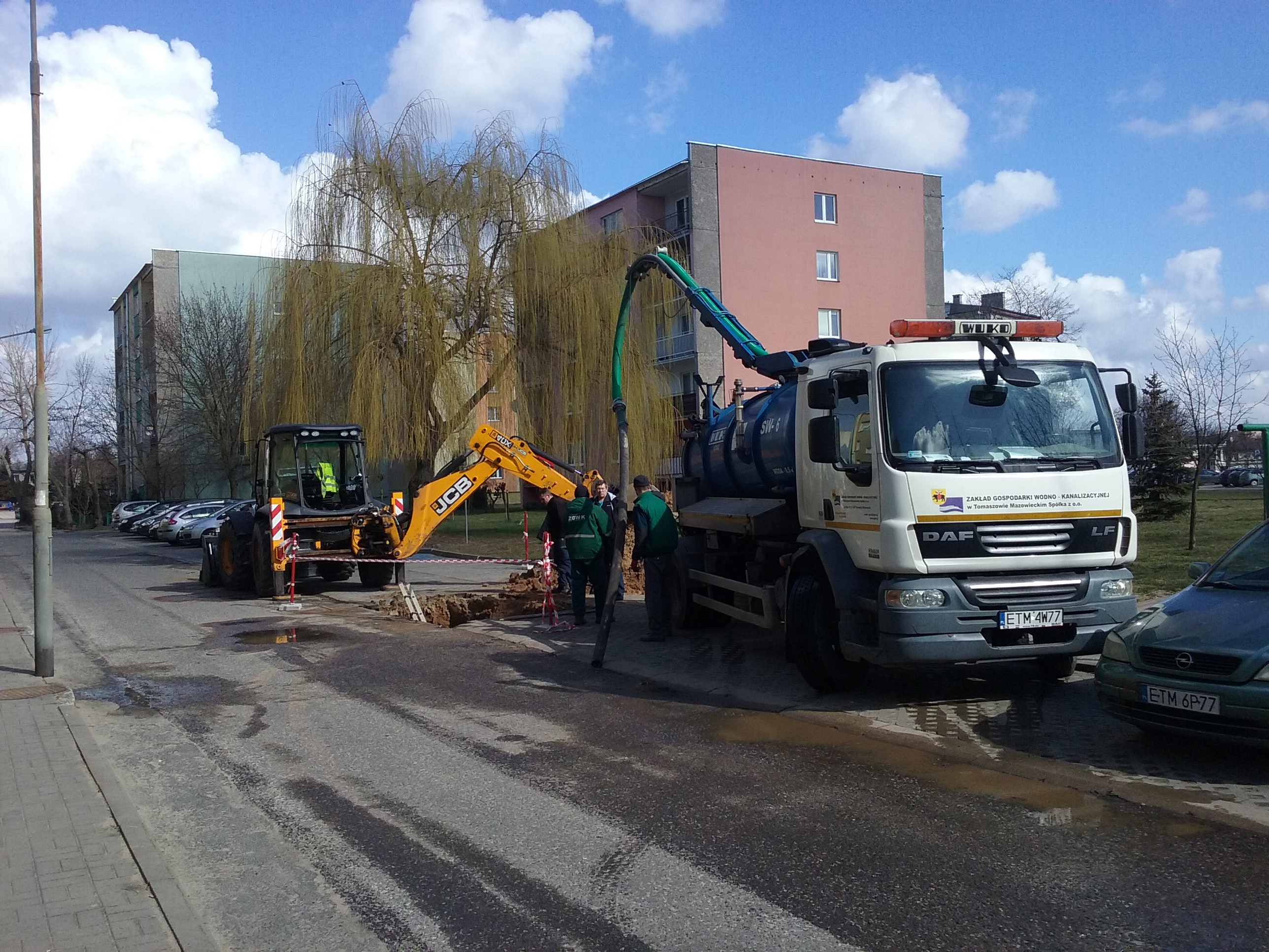 Technical Car of the Water and Sewage Management Plant in Tomaszów Mazowiecki (ZGWK during the emergency work in the water mains failure on the street Wandy Panfil in Tomaszów Mazowiecki, Łódź Voivodeship, PL, EU, CC0